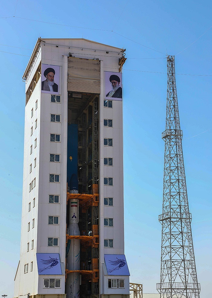 Zafar Satellite